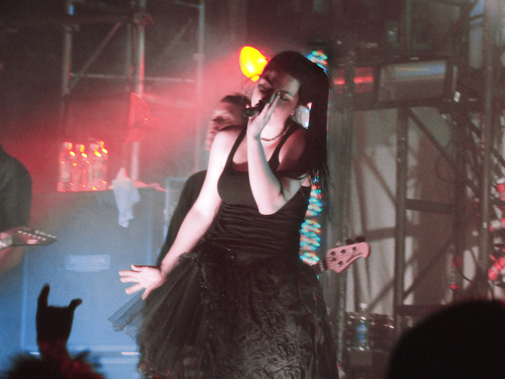 Evanescence early line-up.